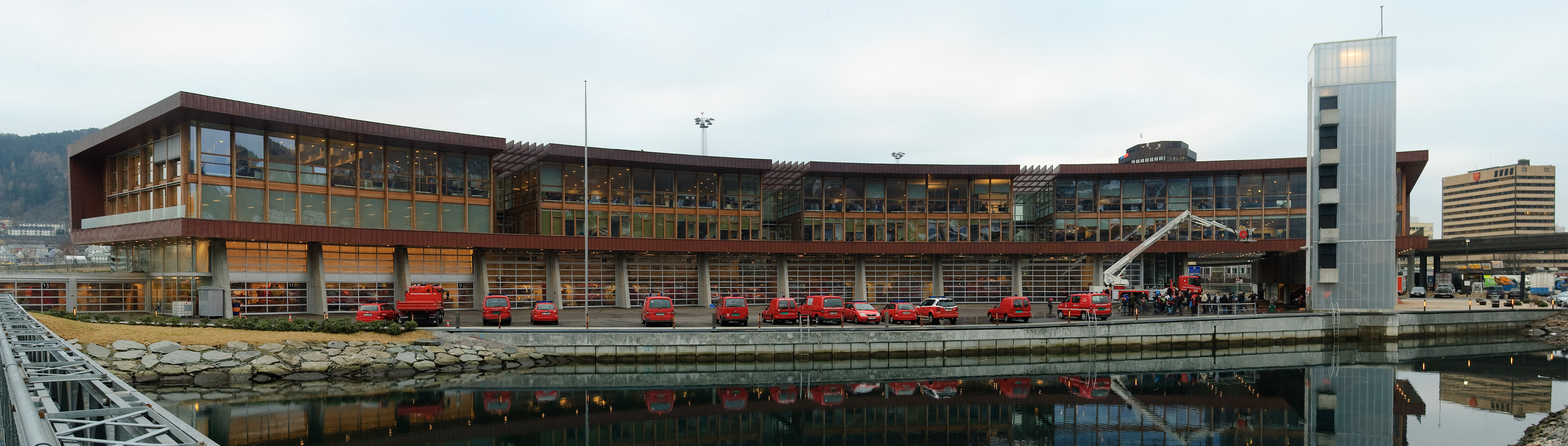 The main fire station in Bergen, Norway, located between Store Lungegårdsvann and a major motorway interchange. It was built between 2005 and 2007.